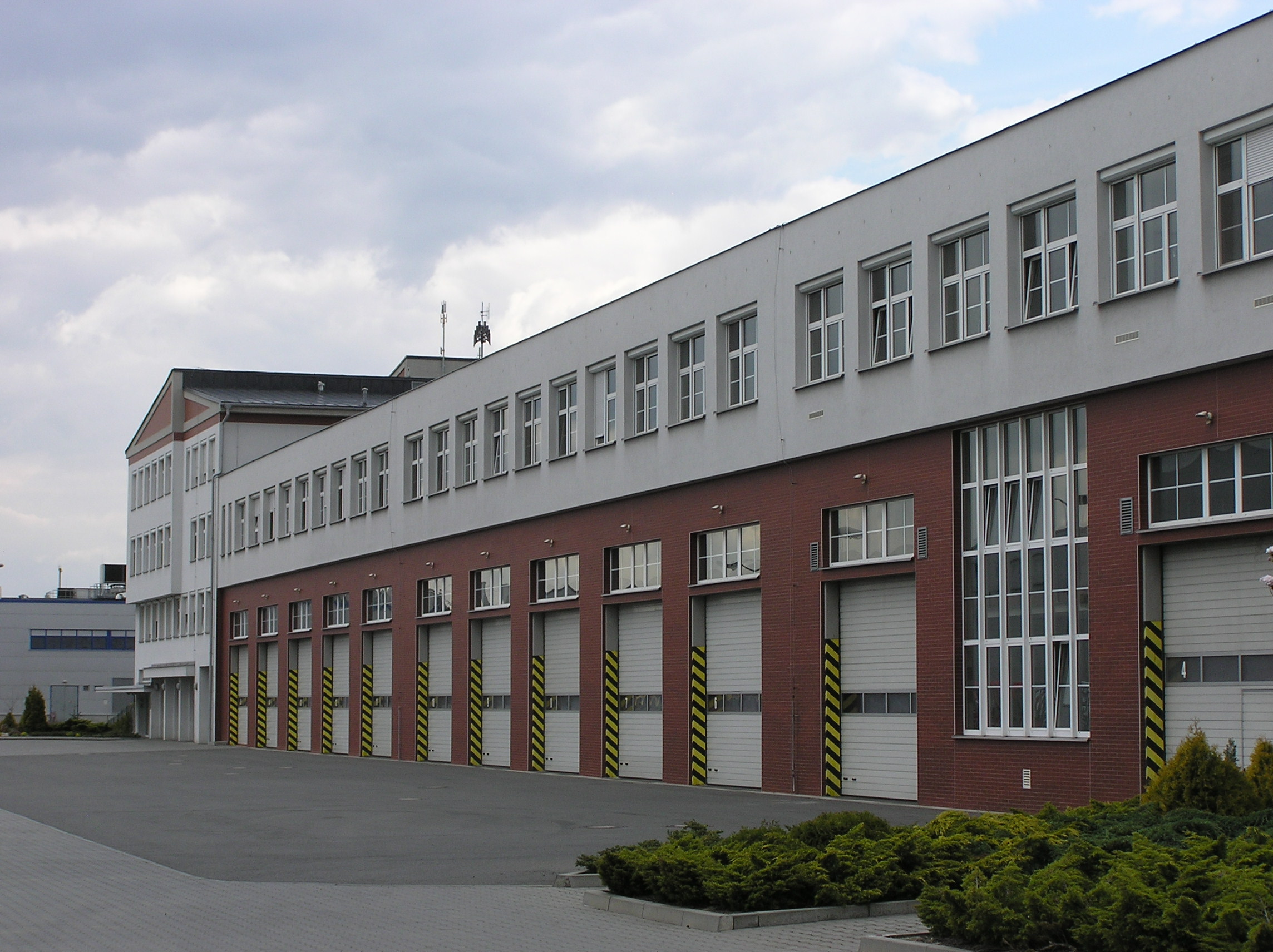 Regional center and station of the Emergency Medical Service of Moravian-Silesian Region and regional center of the fire department of Moravian-Silesian Region in Ostrava, Czech Republic